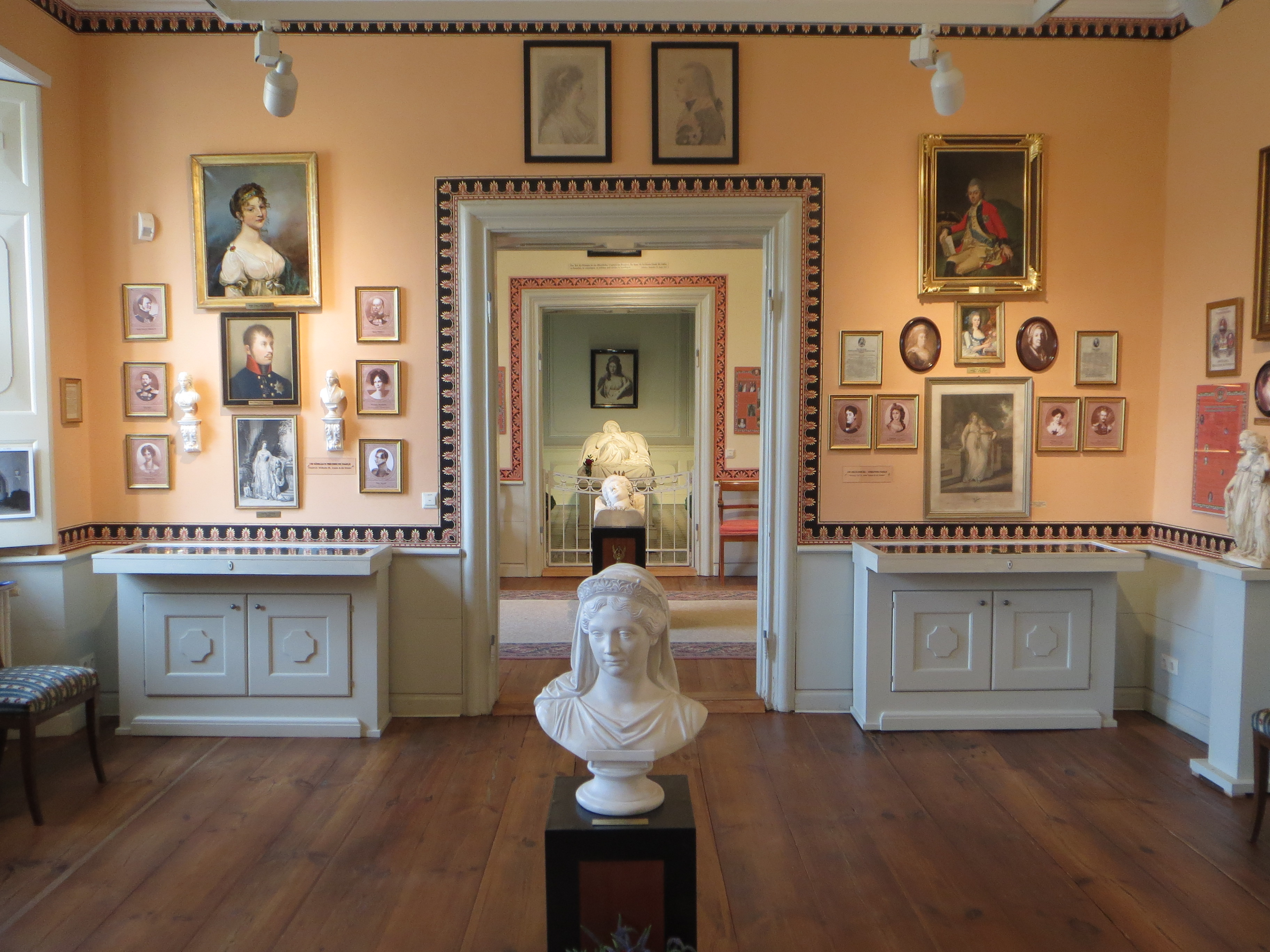 Königin-Luise-Gedenkstätte, Schloss Hohenzieritz